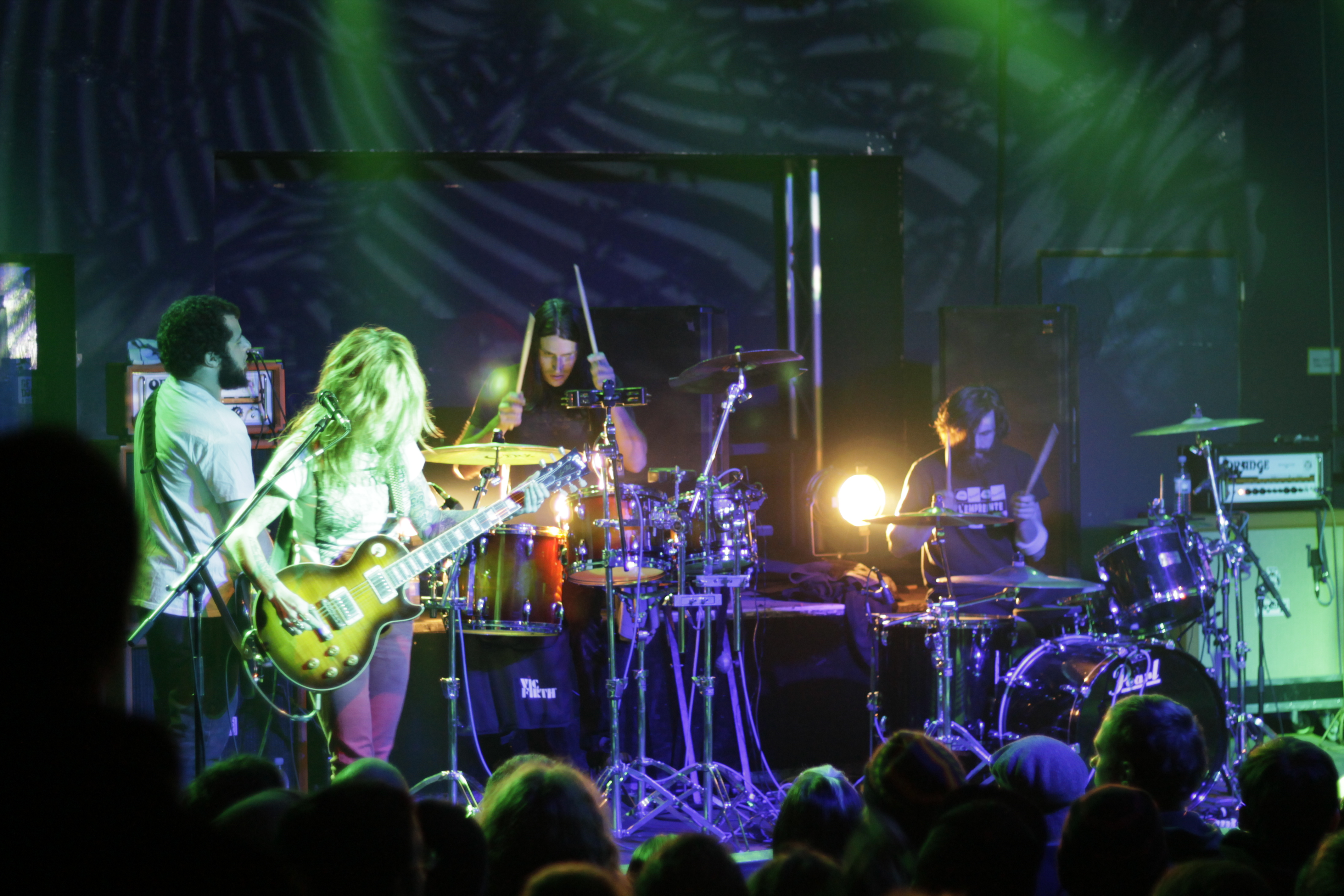 Kylesa performing live at Conne Island, Leipzig, Germany. 15.02.2012